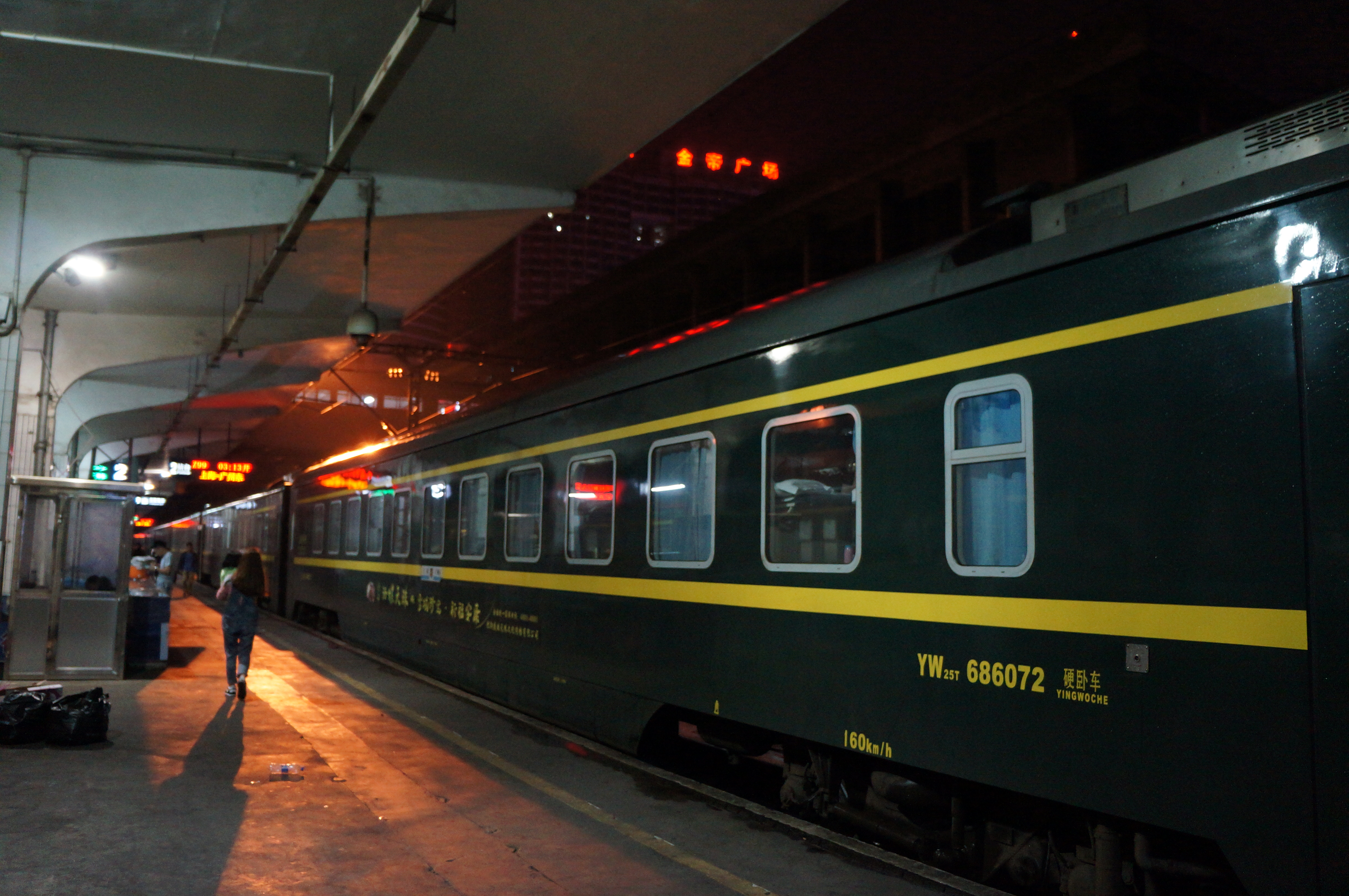 201609 YW25T-686072 from Z99 at Zhuzhou Station, possibly be used on Shanghai–Lhasa Train